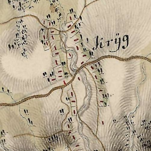 Kryg, at the Walddeutschen